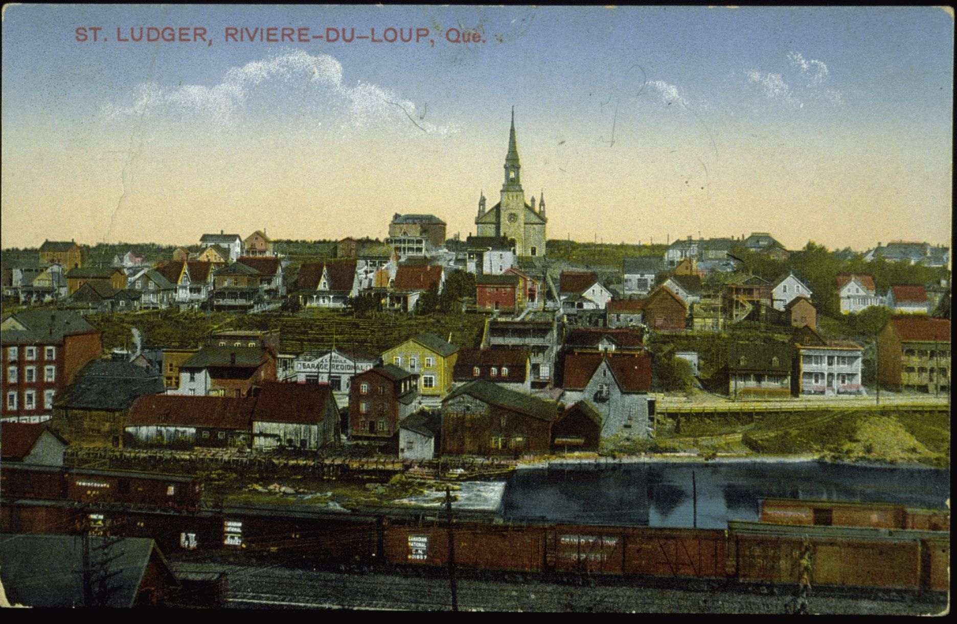 carte postale, Novelty Manufacturing & Art Co. Ltd.